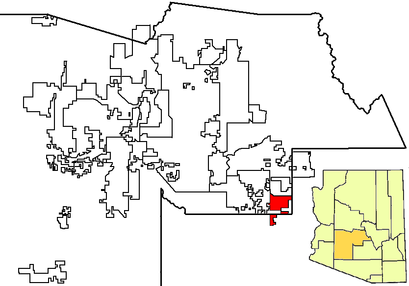 Map of approximate corporate boundary of Queen Creek, Arizona, within Maricopa County